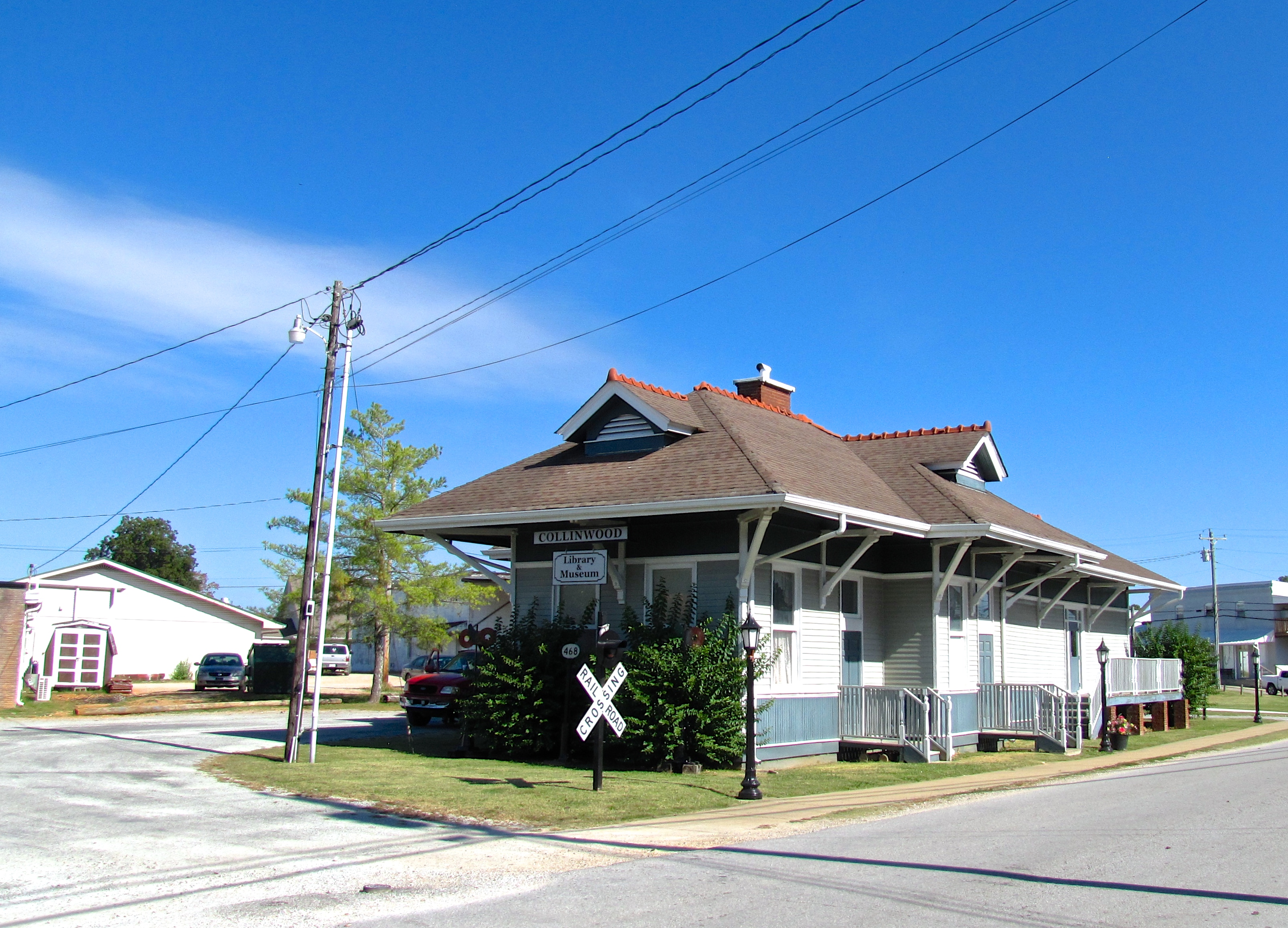 The Collinwood Railroad Station, now home to the Collinwood Library and Museum, in Collinwood, Tennessee, United States.